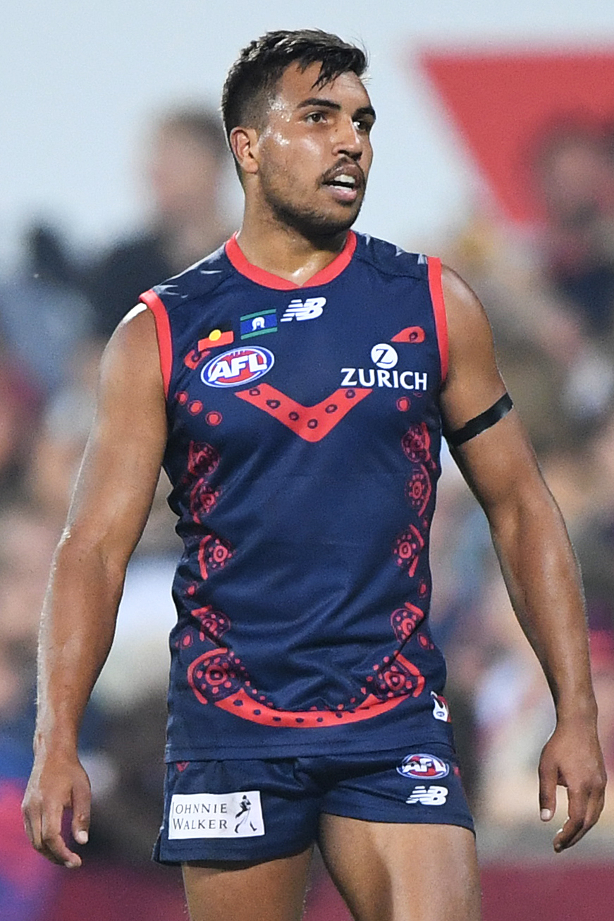 Jay Kennedy Harris of Melbourne during the 2019 AFL round 11 match between Melbourne and Adelaide at TIO Stadium on Saturday, 1 June 2019 in Darwin, Northern Territory.